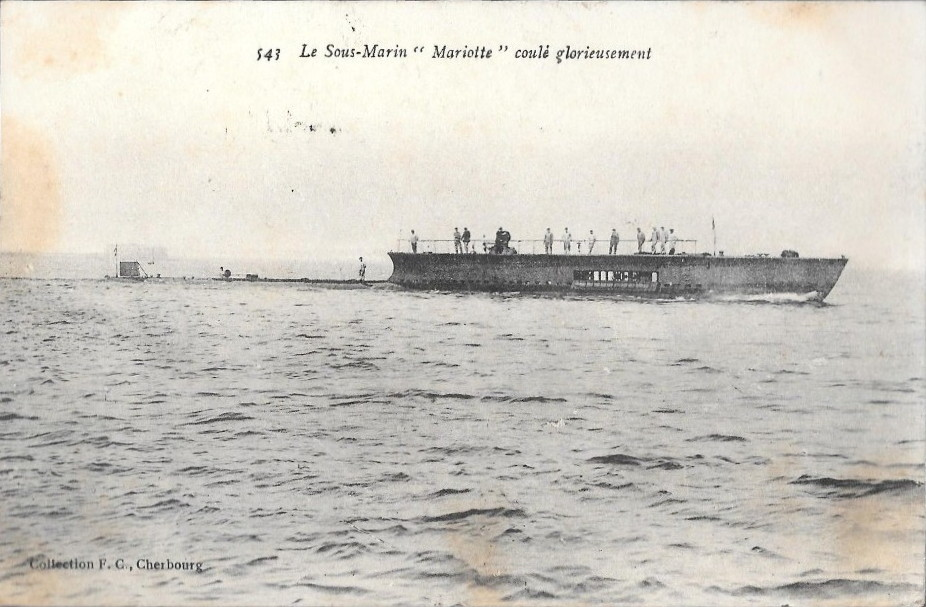 Mariotte on trials, 1912–13